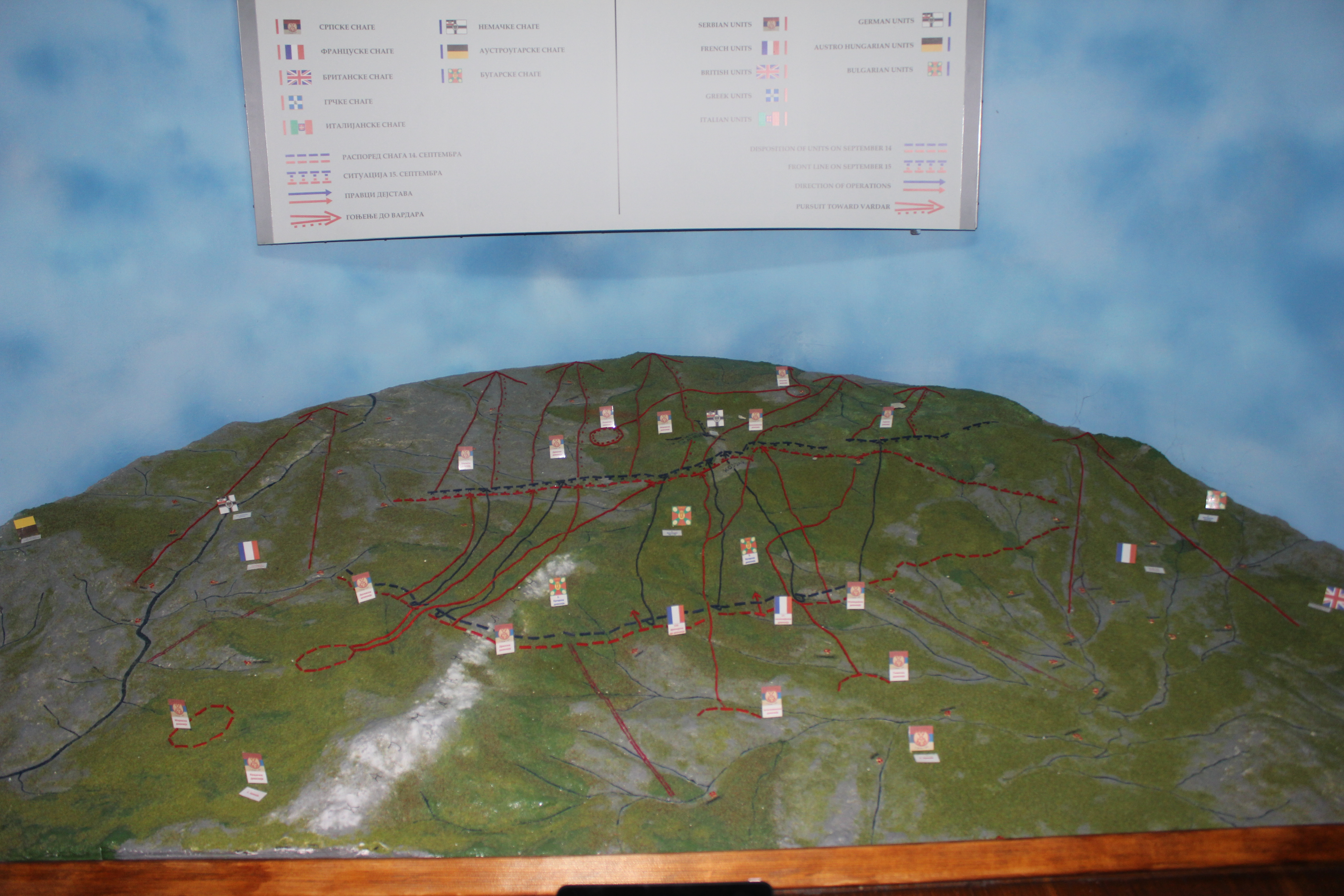 Diorama of breakthrough of Tessalonika front